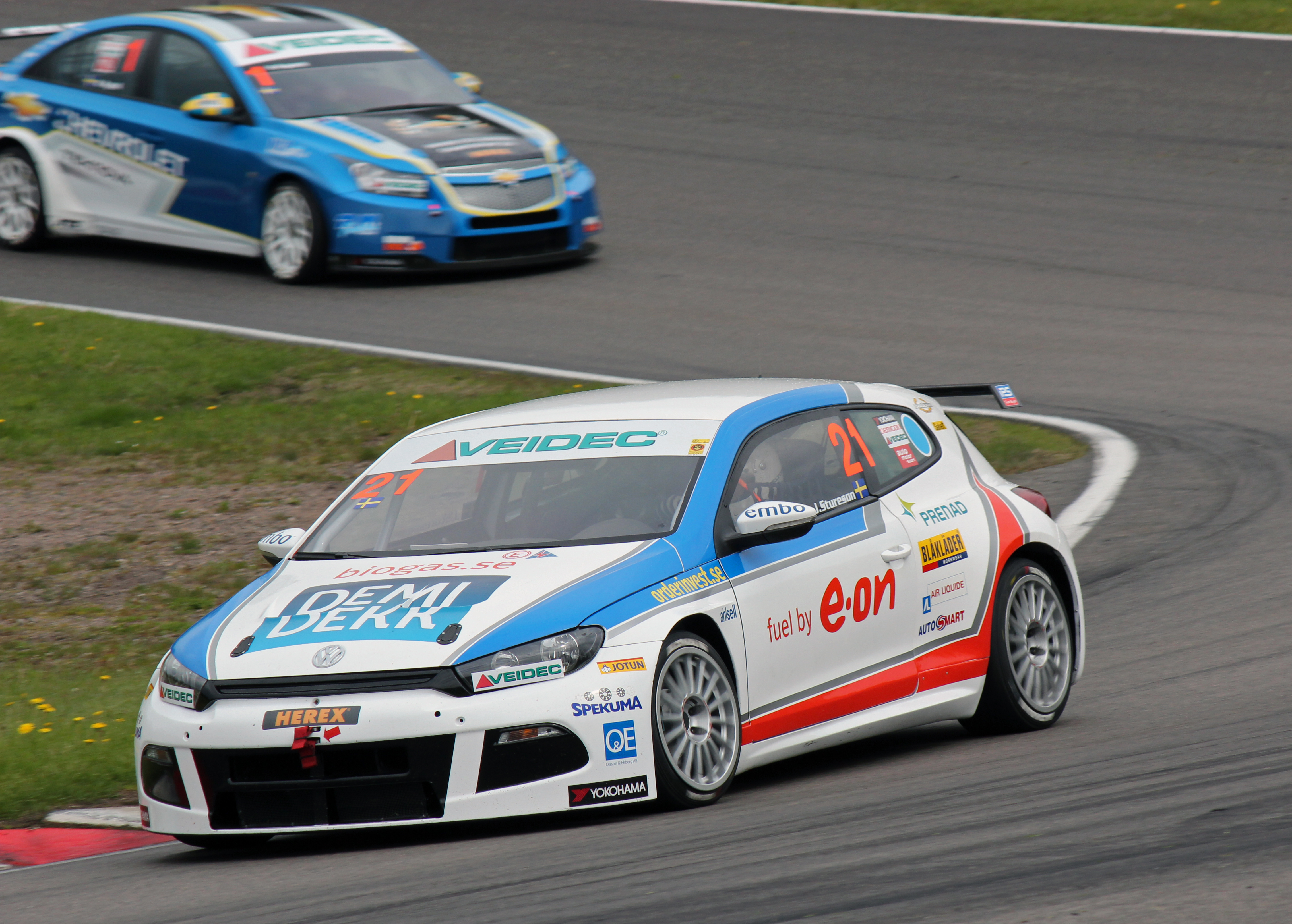 Johan Stureson in his Volkswagen Scirocco for IPS Team Biogas at Ring Knutstorp in the 2012 Scandinavian Touring Car Championship.